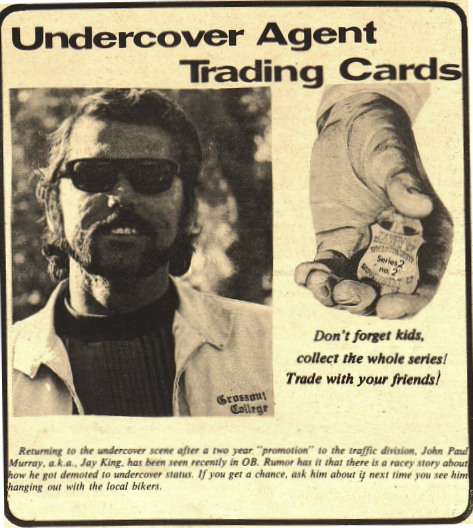 Published in The Door, an underground newspaper in San Diego, CA on January 25, 1973.